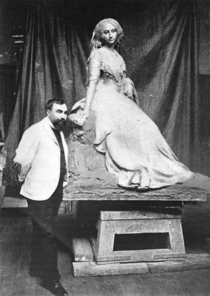 "Sicard's statue of George Sand."